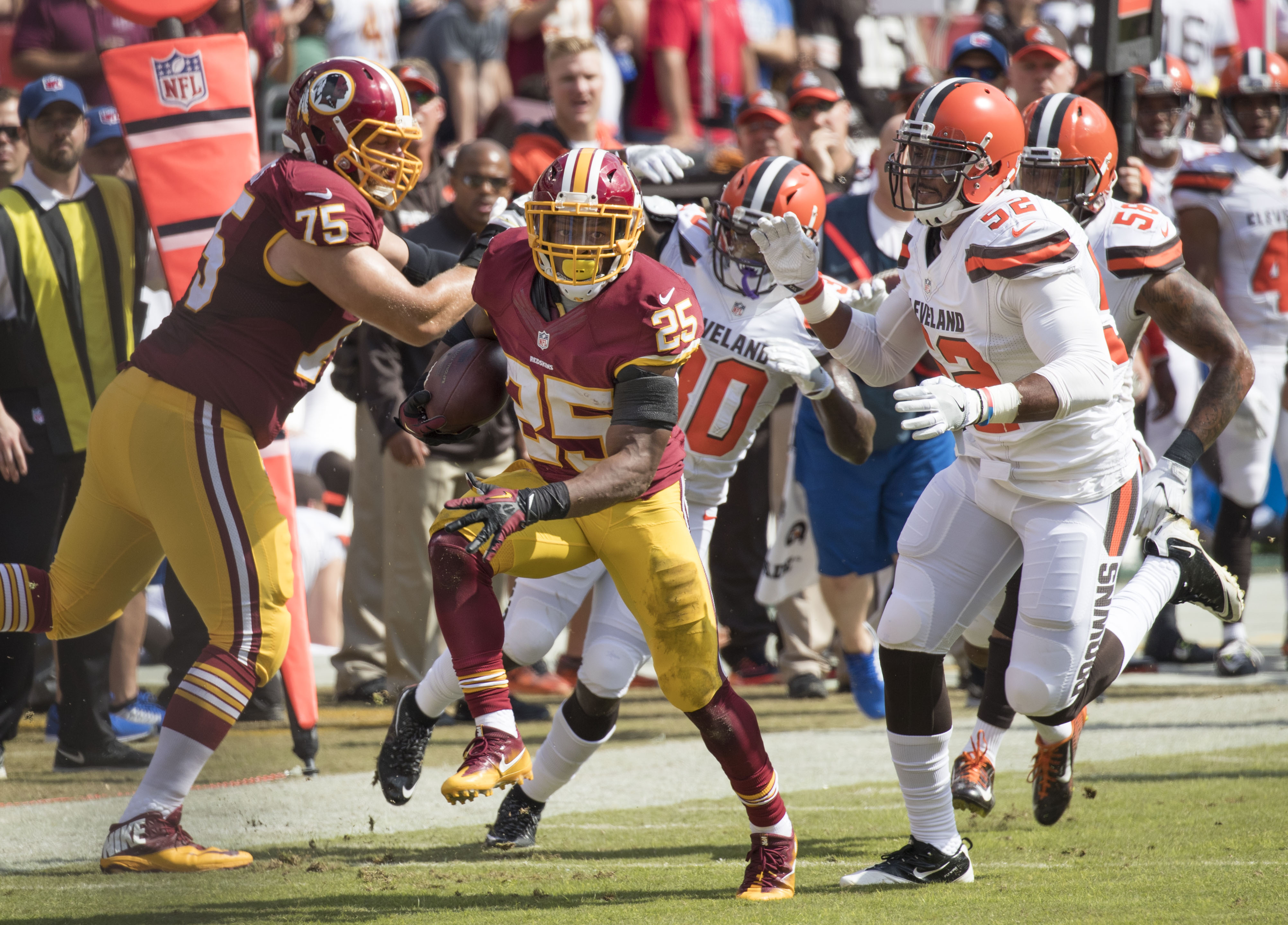 Browns at Redskins 10/2/16